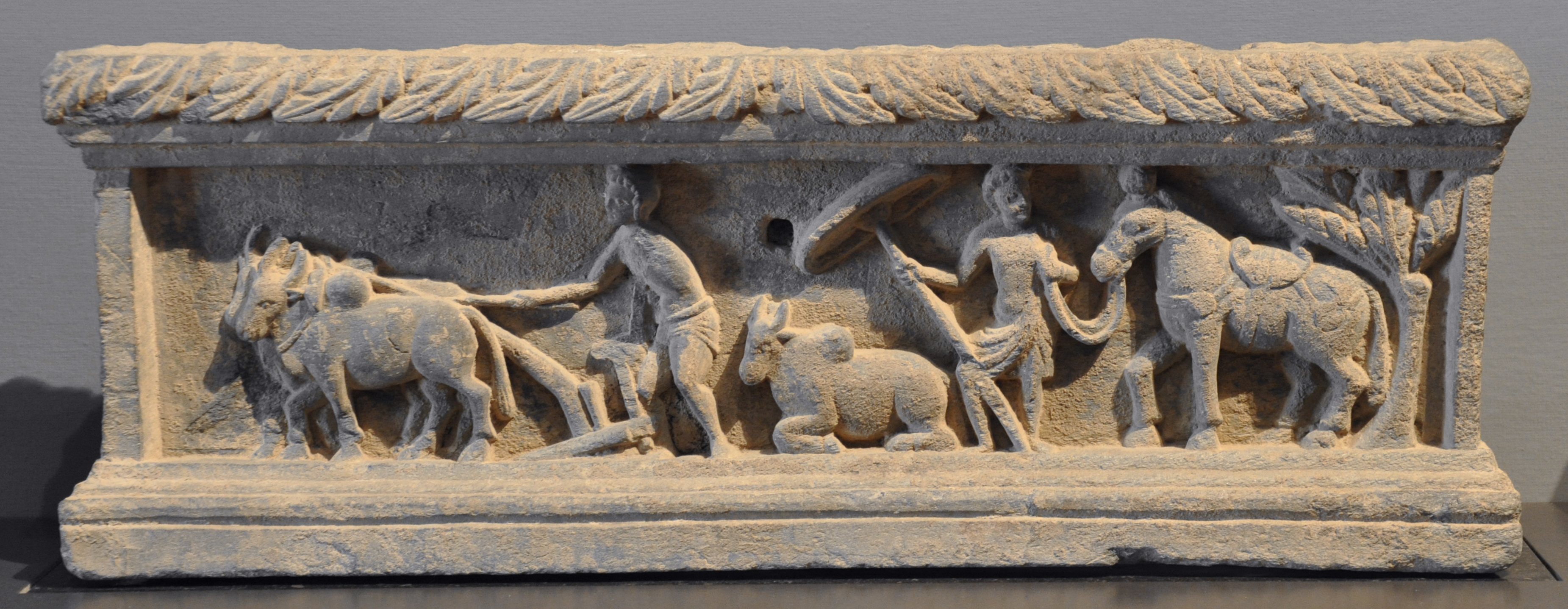 King Suddhodana (father of Prince Siddhartha) performs the ploughing ritual, Pakistan, Gandhara region, 3rd/4th century; slate Museum Rietberg, Zurich; Inv. No. RVI 8